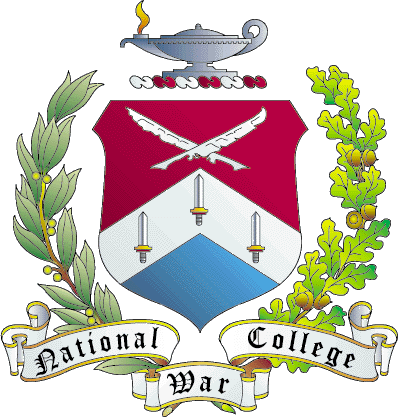 National War College emblem.